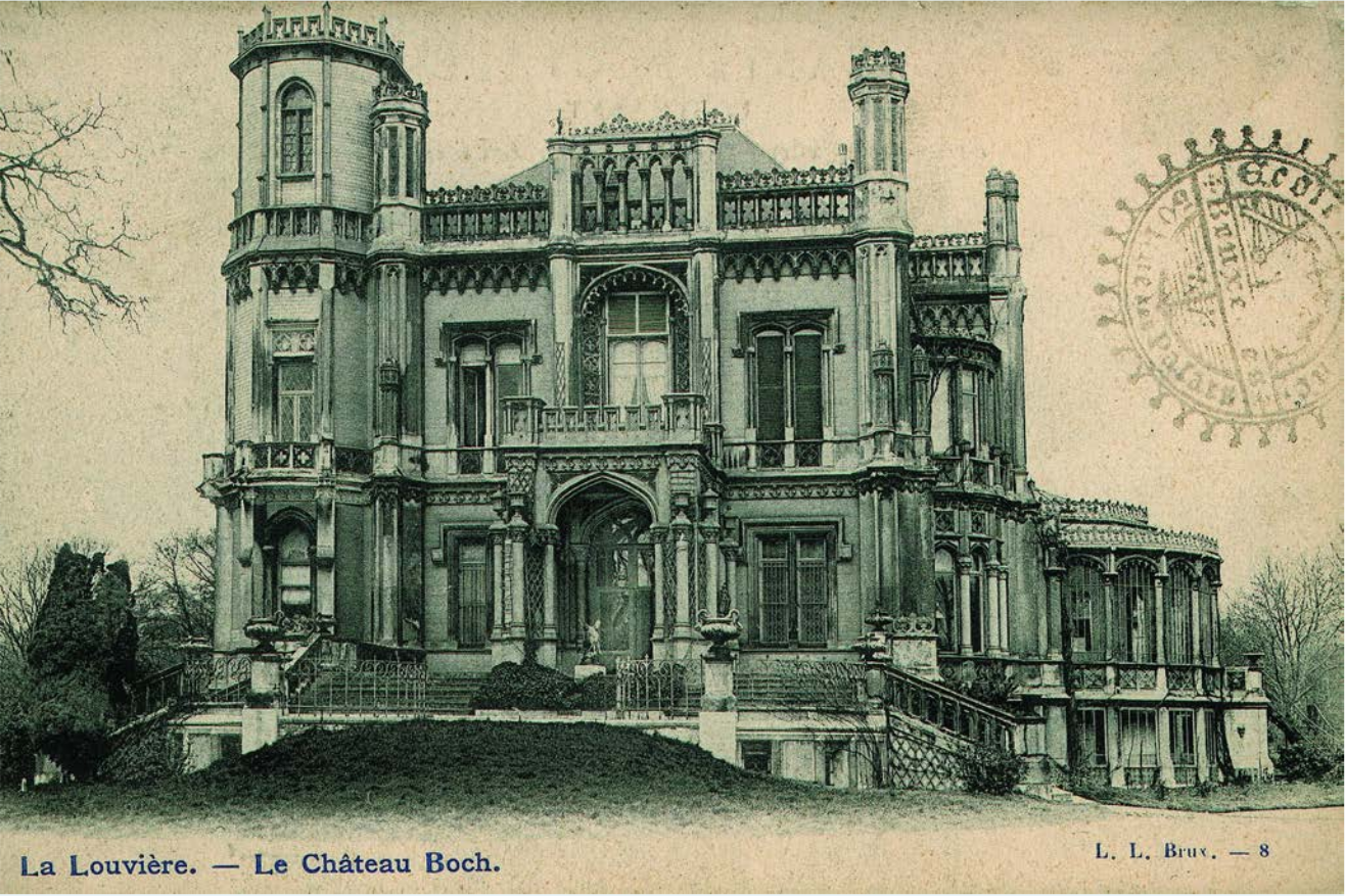 La Closière castle in La Louvière (owner Victor Boch)